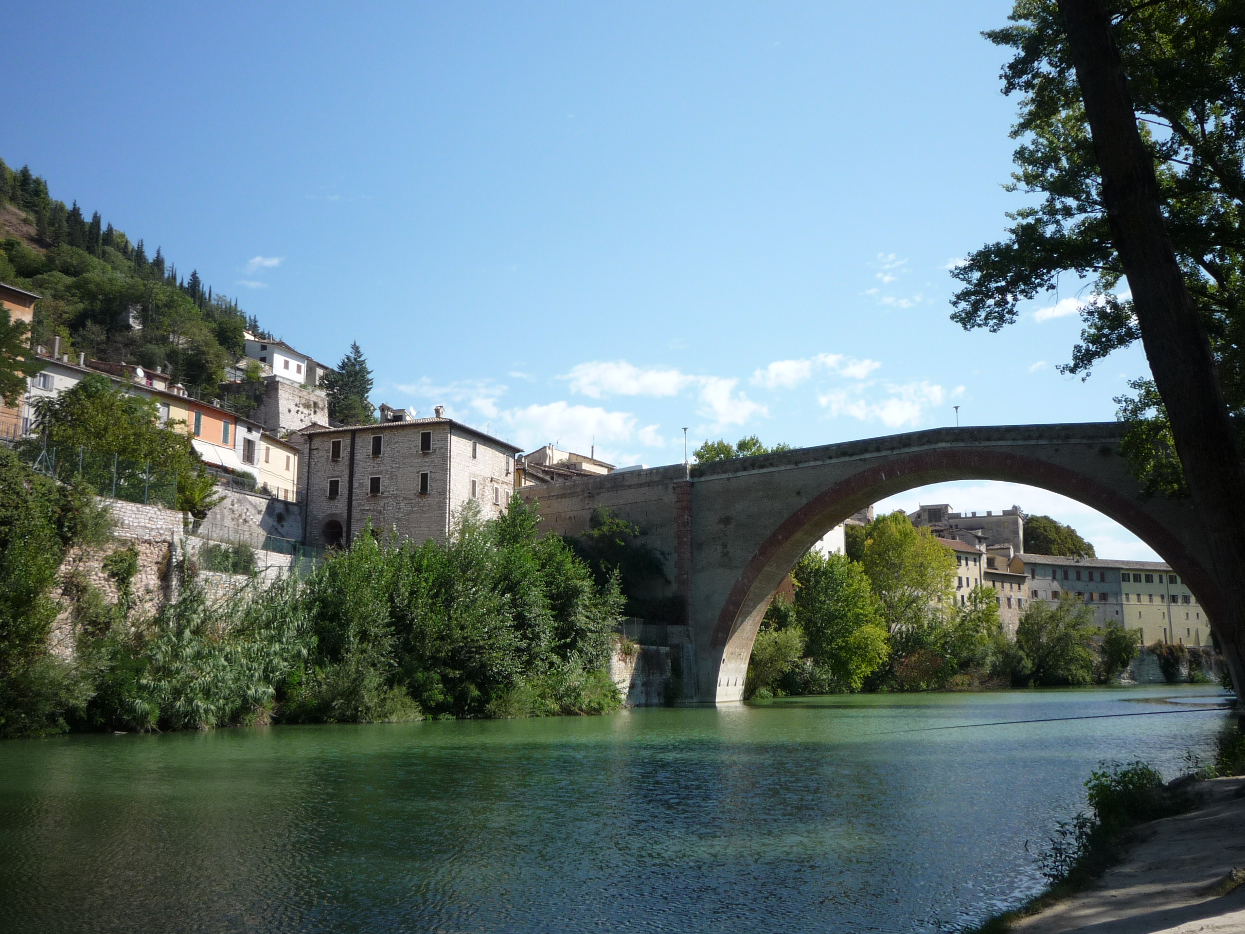 Italy - Fossombrone - Bridge